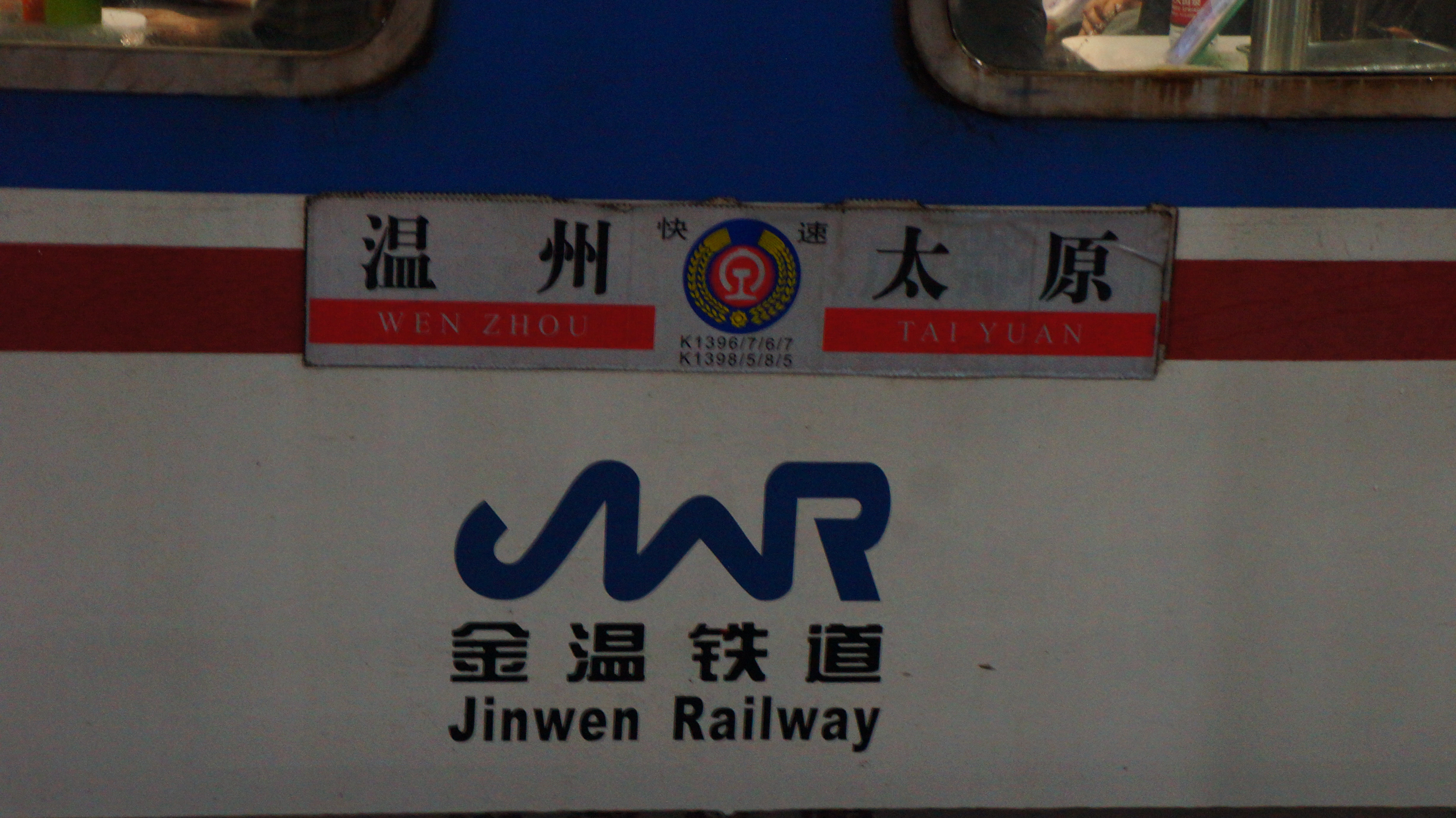 Direction Paper of K1393,4,5,6(Wenzhou-Taiyuan)